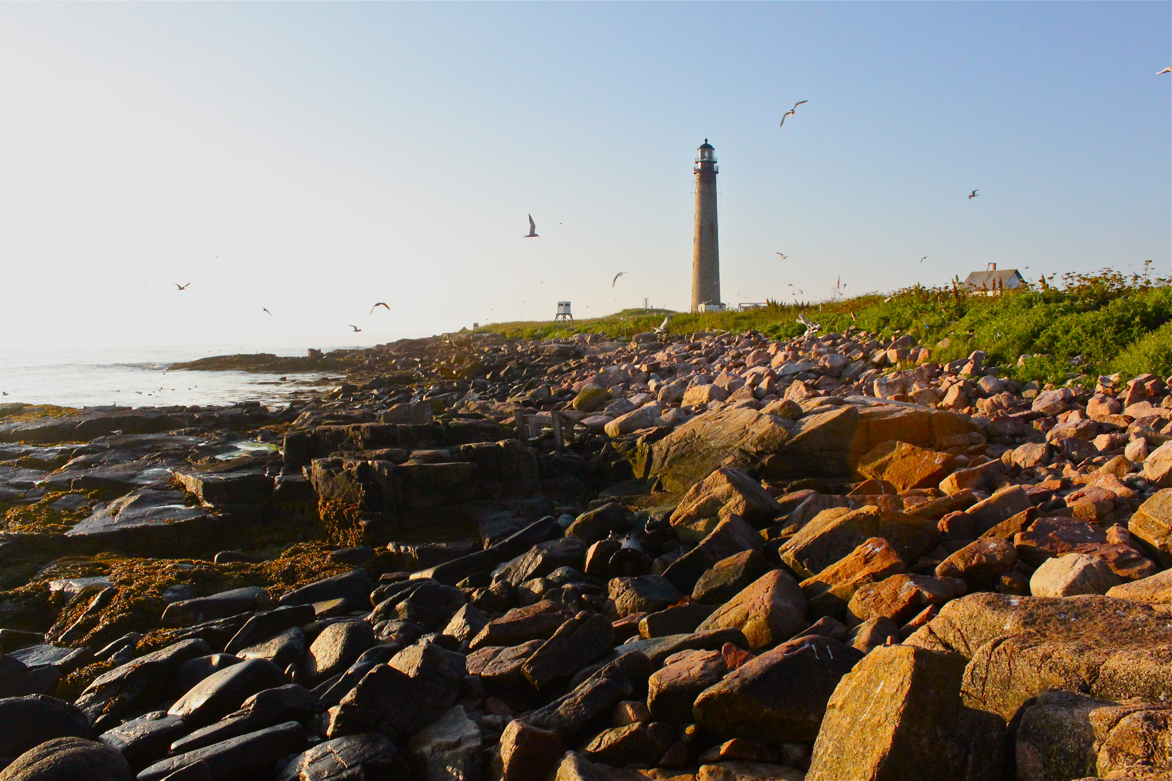 Credit: Rosie Walunas/USFWS